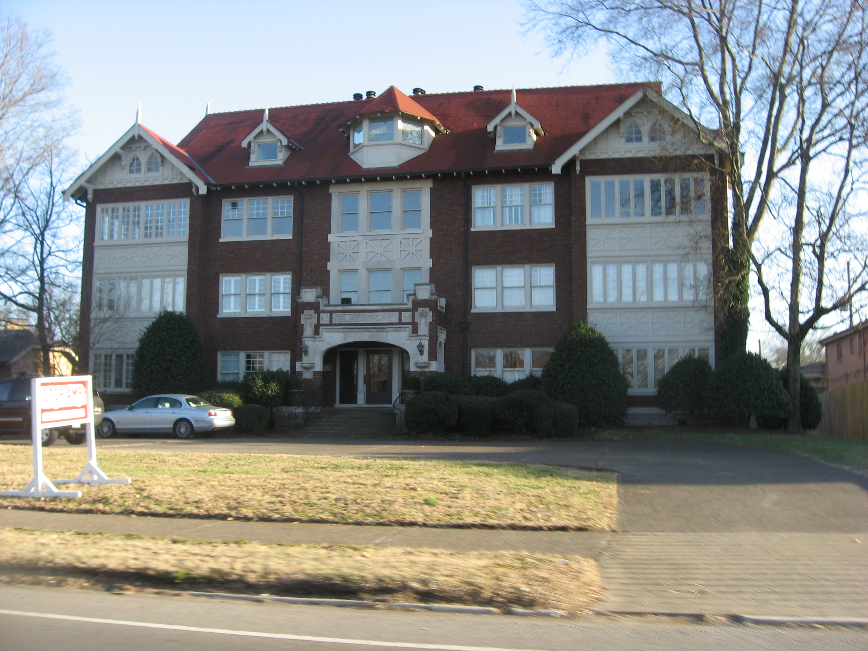 Front of the Gladstone Apartments, located at 3803 West End Avenue (U.S. Route 70S/State Route 1) in Nashville, Tennessee, United States. Built in 1923, it is listed on the National Register of Historic Places.